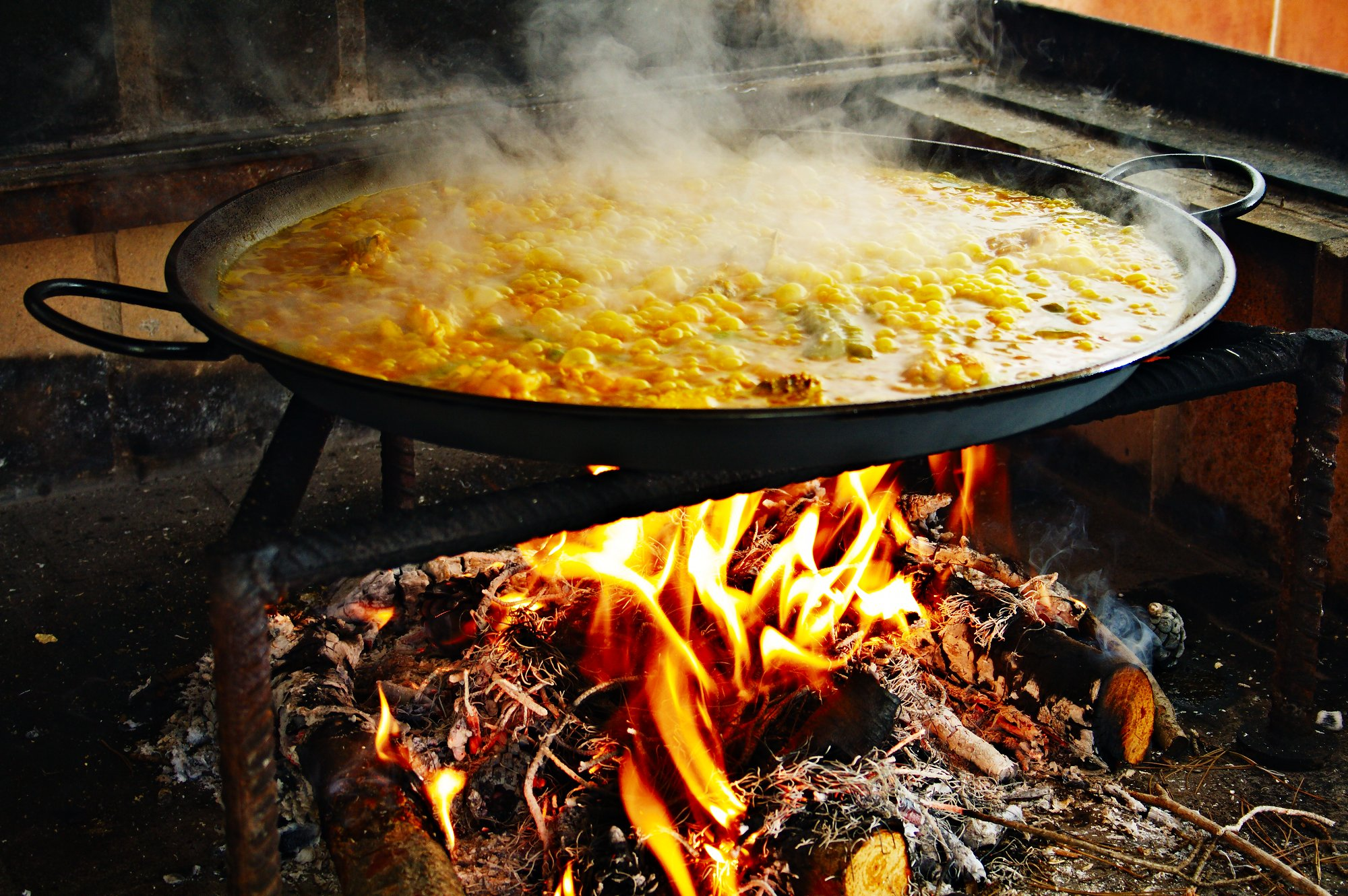 Making a Paella : cooking paella